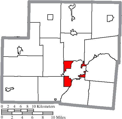 Map of the municipal and township boundaries of Shelby County, Ohio, United States, as of the 2000 census, with the location of Clinton Township highlighted. Township borders are shown only in unincorporated areas in order to differentiate incorporated and unincorporated areas more clearly.